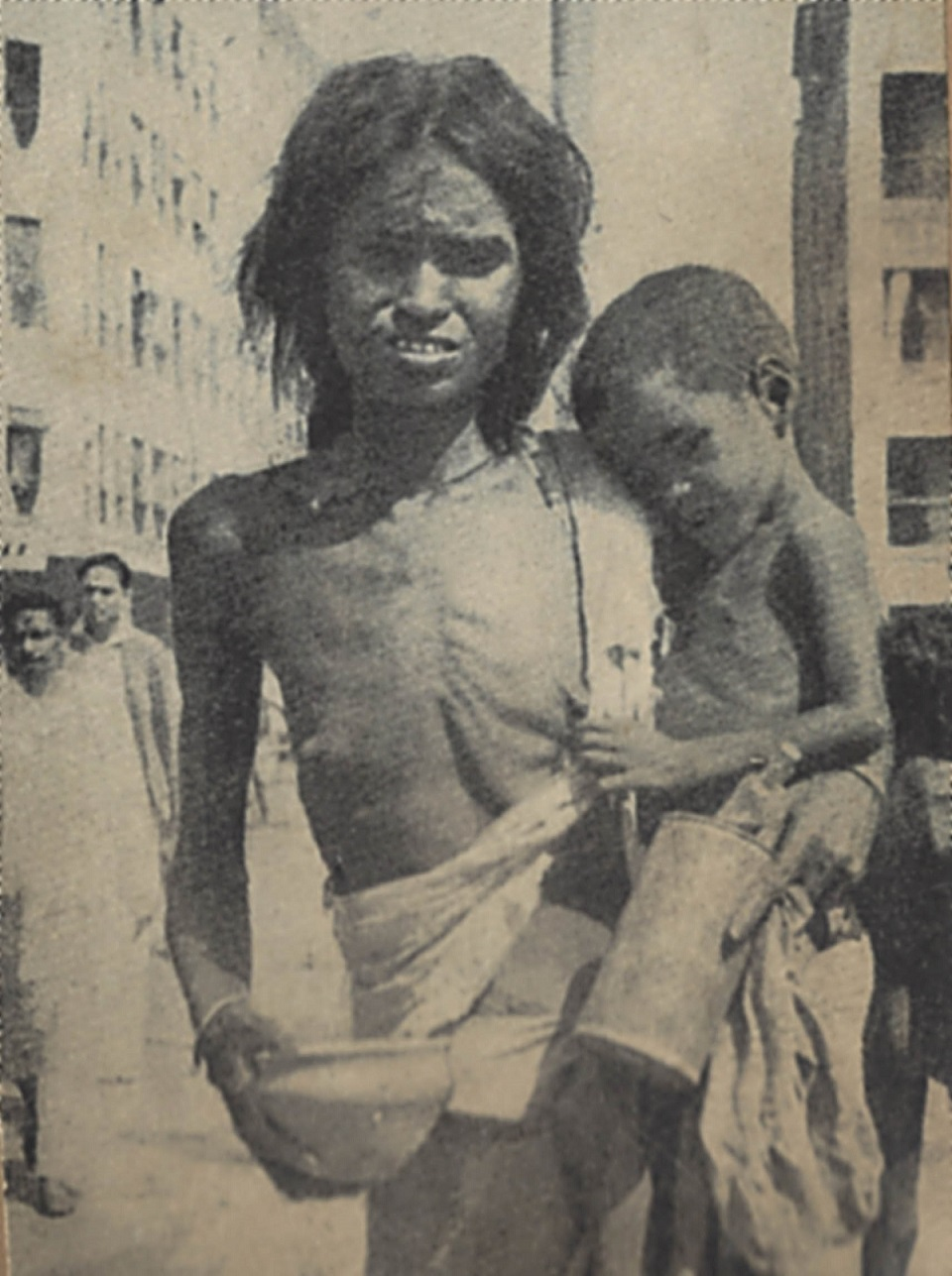 Mother in shreds of clothing with child begging on the streets of Calcutta during the Bengal famine of 1943